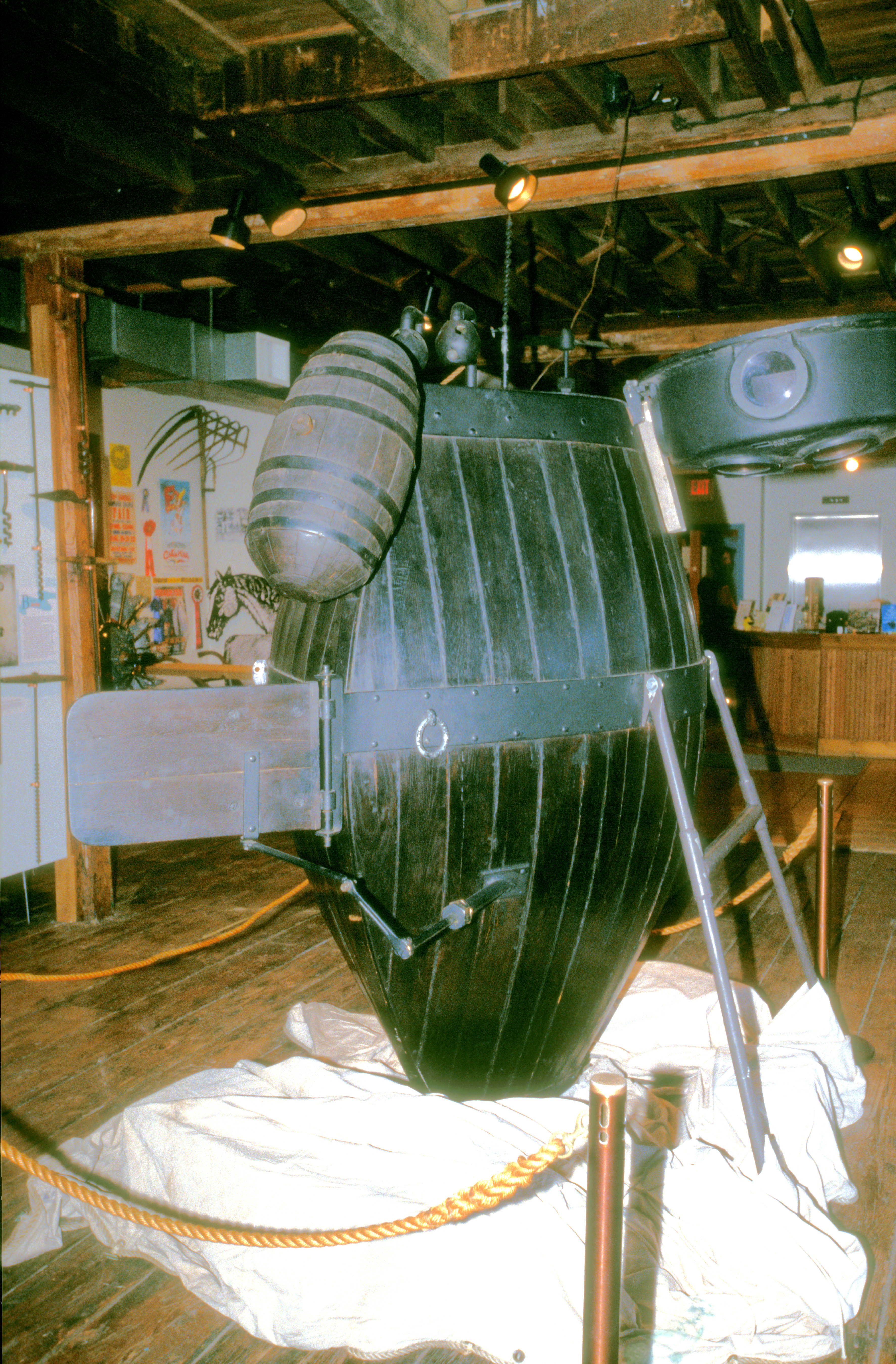 MODEL OF THE AMERICAN “TURTLE” WHICH WAS THE FIRST ATTEMPT AT A SUBMARINE; DESIGNED BY BUSHNELL & PRATT. IT ATTEMPTED TO SINK THE BRITISH SHIP “EAGLE” IN NEW YORK HARBOR DURING THE REVOLUTIONARY WAR BUT FAILED TO CORRECTLY PLACE THE BOMB RESULTING IN A LARGE EXPLOSION WHICH DID NOT SINK THE VESSEL. SUBMARINE WAS A ONE MAN VESSEL AND THE BOMB EXTENDED FROM THE SHIP TO BE SCREWED INTO THE HULL OF THE TARGET SHIP.